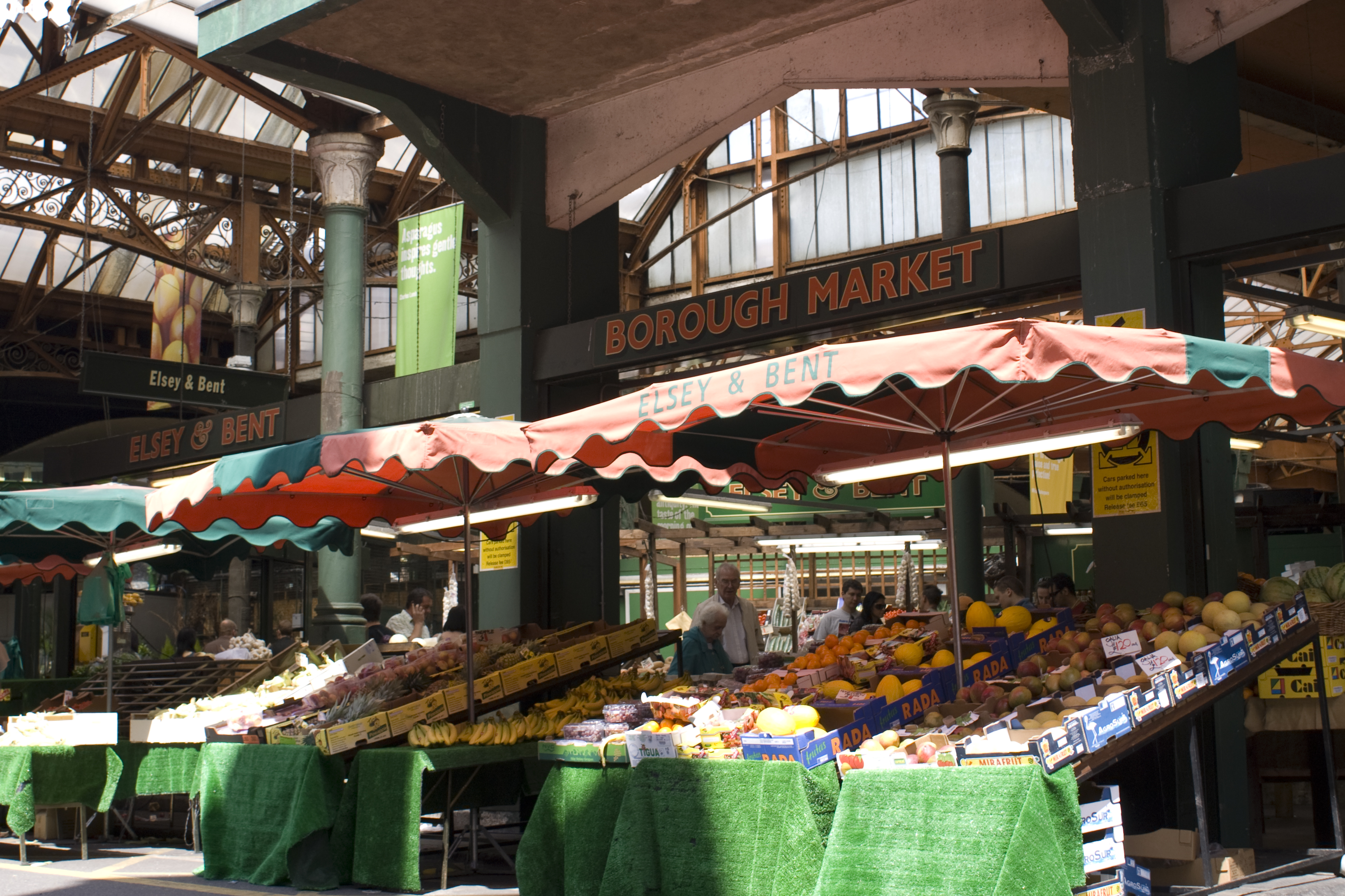 Borough Market, London